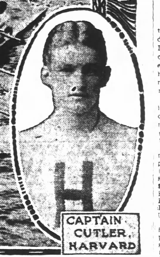 Harvard rowing captain Johnny Cutler